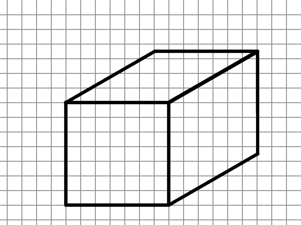 الصورة النهائية كما ستظهر عند الرسم بزاوية 30